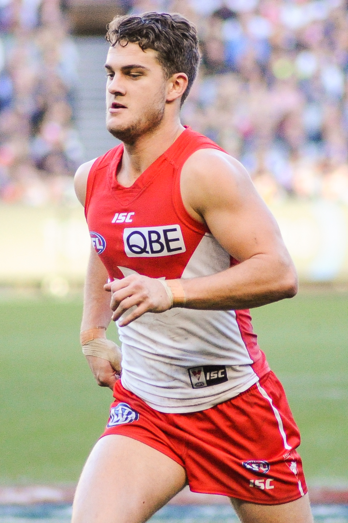 Tom Papley during the AFL round thirteen match between Richmond and Sydney on 17 June 2017 at the Melbourne Cricket Ground in Melbourne, Victoria.